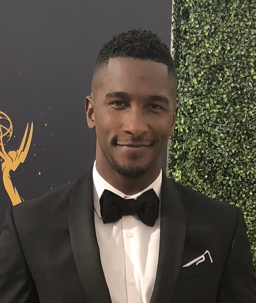 Scott Evans conducting interviews with Access on the red carpet at the 70th Primetime Emmy Awards in 2018